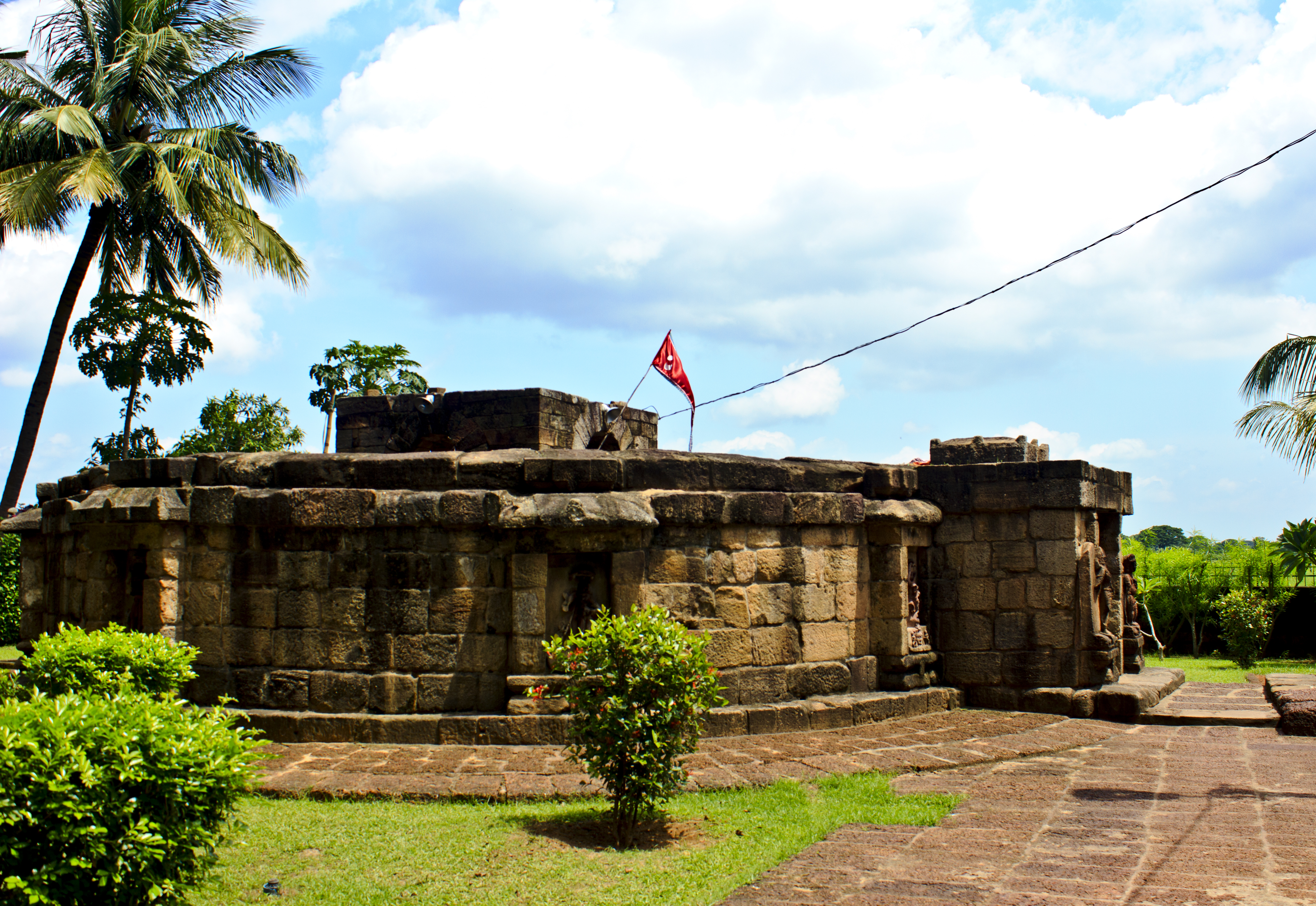 Chausath Yogini temple (Hirapur)